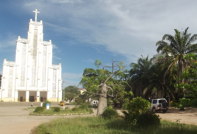 The imposing facade of Mahajanga's Catholic Cathedral church dominates a garden in Mangarivotra, the greener part of town.